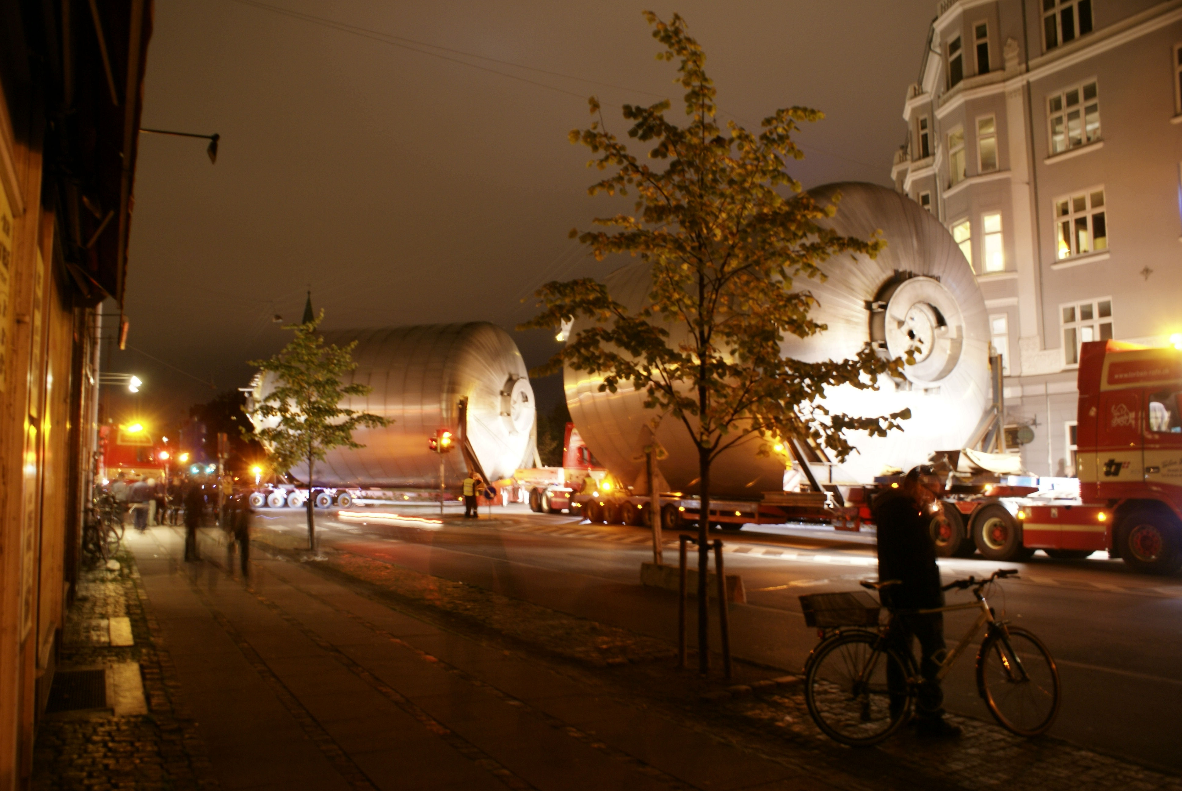 Carlsberg, moving of the production machinery from Valby to Fredericis